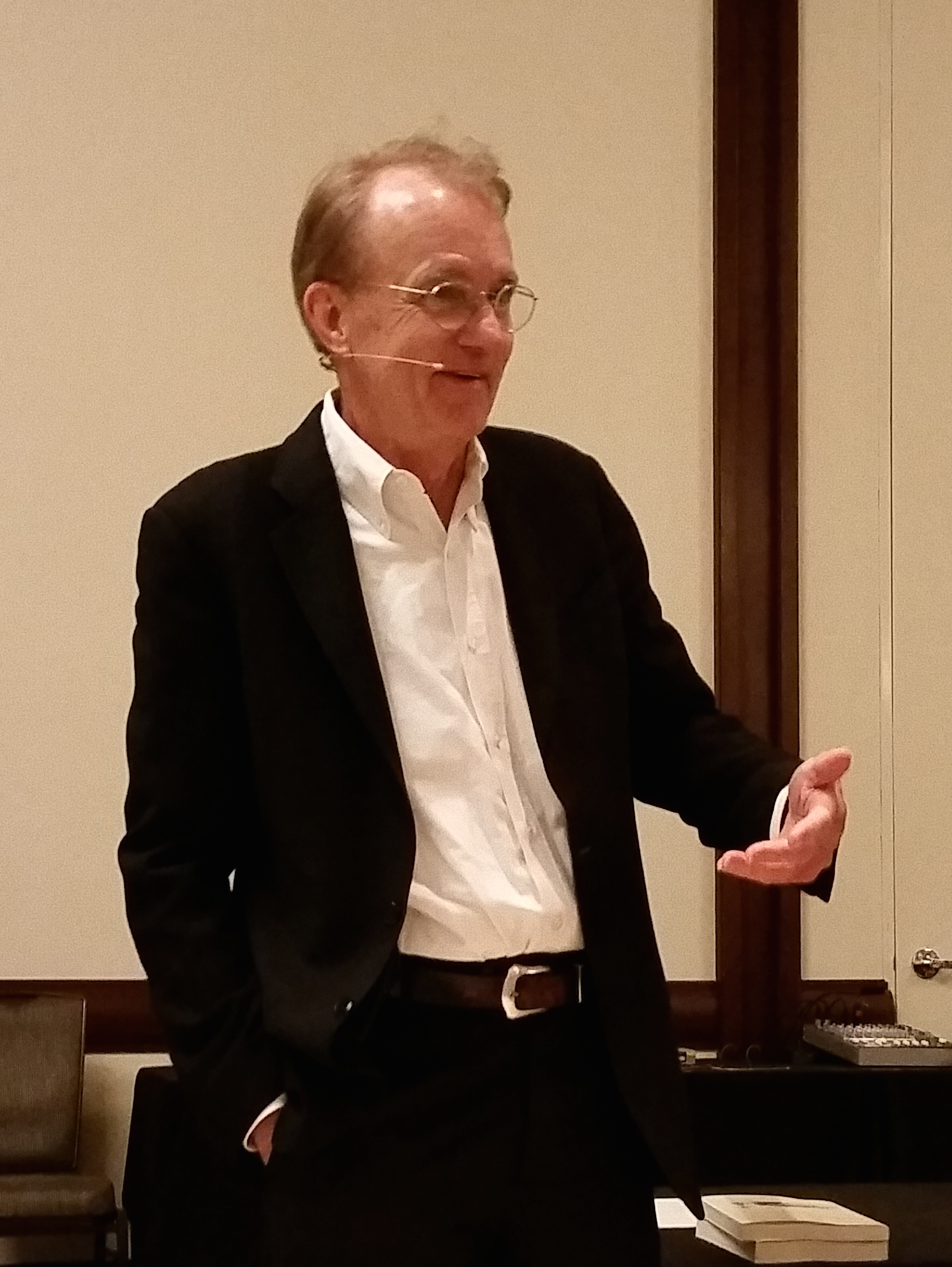 Edward Tufte presenting in Dallas, Texas, May 2015.